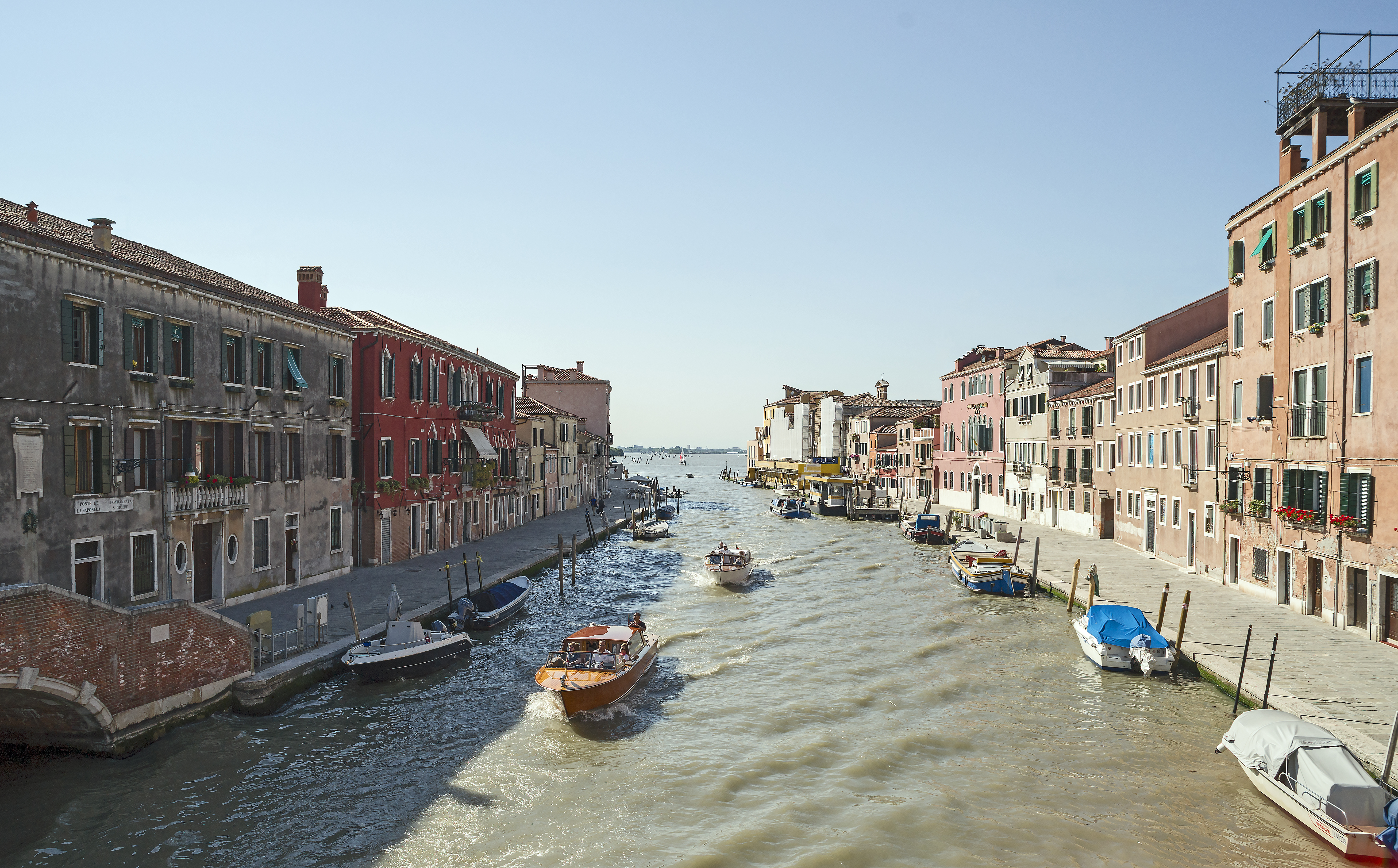 Canale di Cannaregio, Venice. View towards Mestre, from Tre Archi bridge